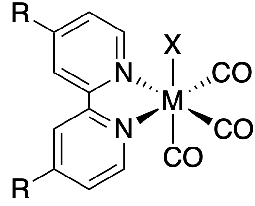 Structure of the facial isomer of M(4,4'-disubstituted-2,2'-bipyridyl)(CO)3X